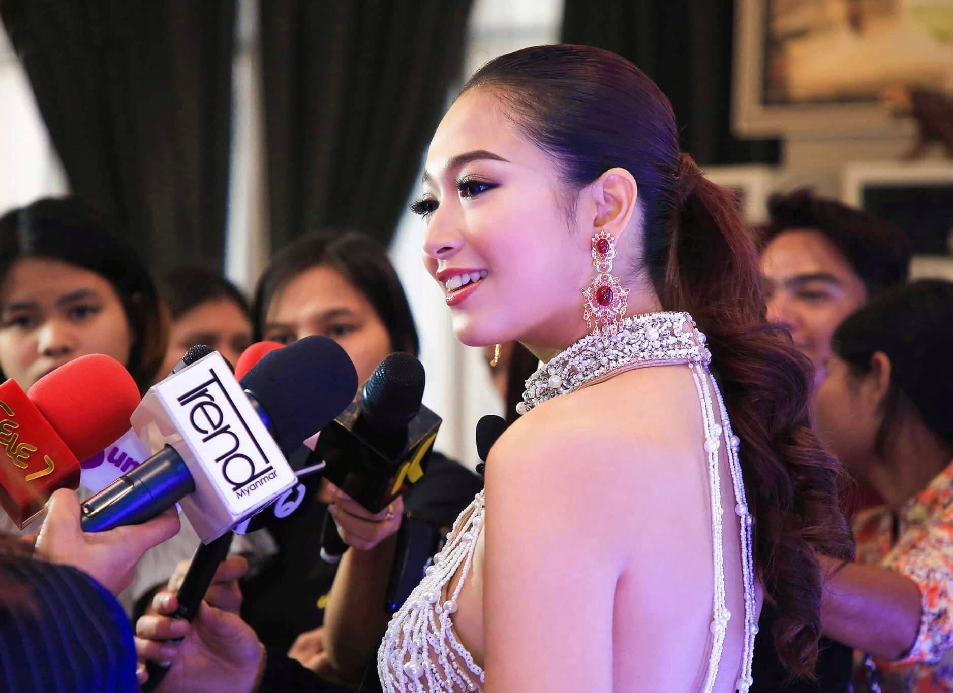 San Yati Moe Myint is a Burmese actress and model. She is considered one of the most successful actresses in Burmese cinema and one of the highest-paid actresses.